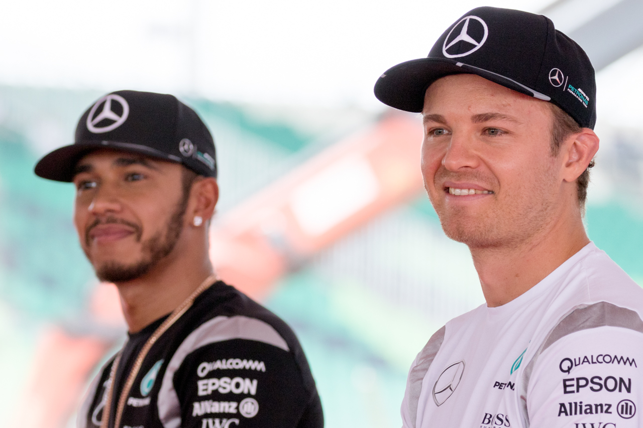 Formula One 2016 Rd.16 Malaysian GP: Nico Rosberg (Mercedes) and Lewis Hamilton (Mercedes)